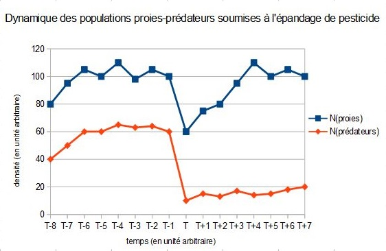 Curves showing the dynamics of two populations (of pre, of predators) in response to pesticide use